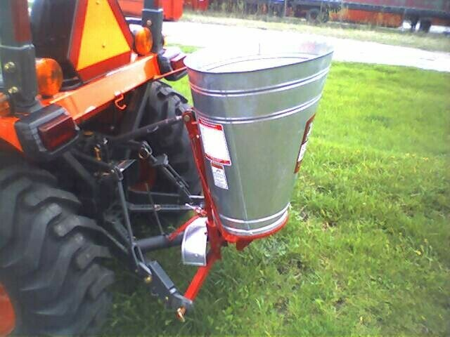 Model M96 Herd brand broadcast seeder/spreader attached to a Kubota B2910 compact tractor. This is the smallest of the Herd broadcast seeders and is sized for use on Compact Utility Tractors.